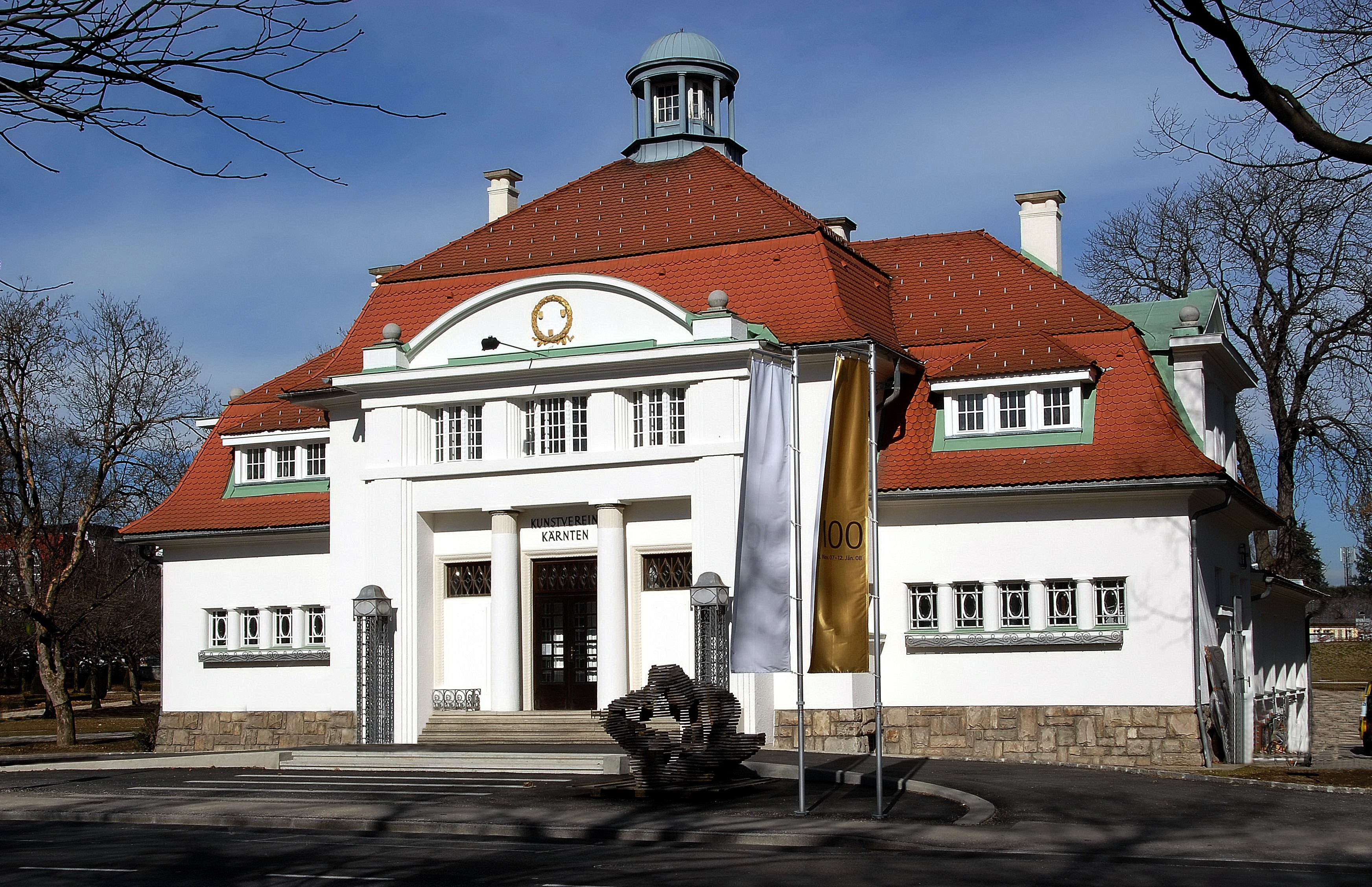 House of art gallery, 1913, designed by Franz Baumgartner, Goethepark #1, inner city, statutary city Klagenfurt, Carinthia, Austria, EU